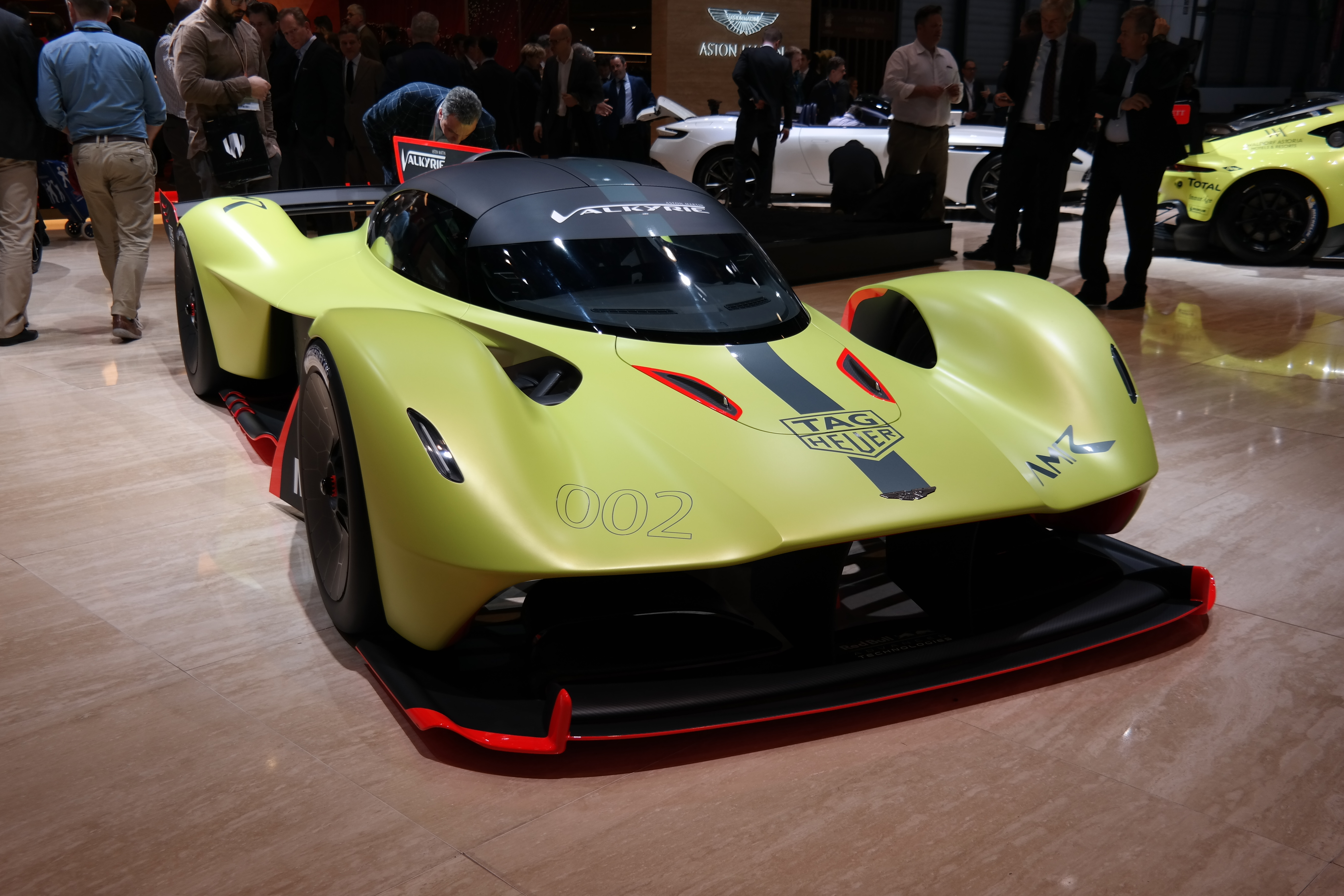 Geneva Motor Show 2018 (photo taken on the first press day)